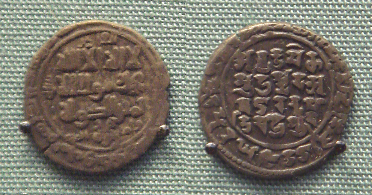 Silver_jitals_of_Mahmud_of_Ghazna_with_bilingual_Arabic_and_Sanskrit_minted_in_Lahore_1208.